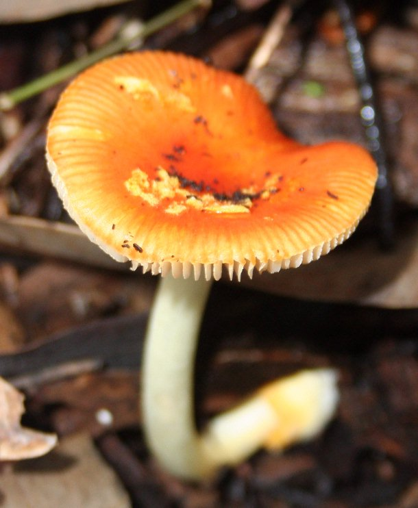 Amanita xanthocephala, Sylvan Grove at Picnic Pt SW Sydney